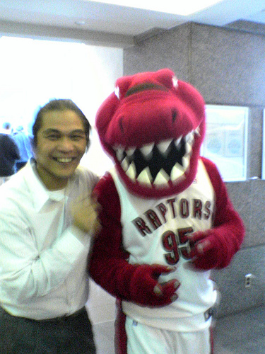 The Raptor, the Toronto Raptors mascot, with a fan.